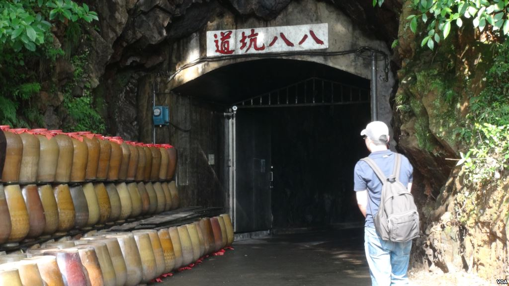 Tunnel 88, Nangan Township, Matsu Islands, Fujian Province, Republic of China